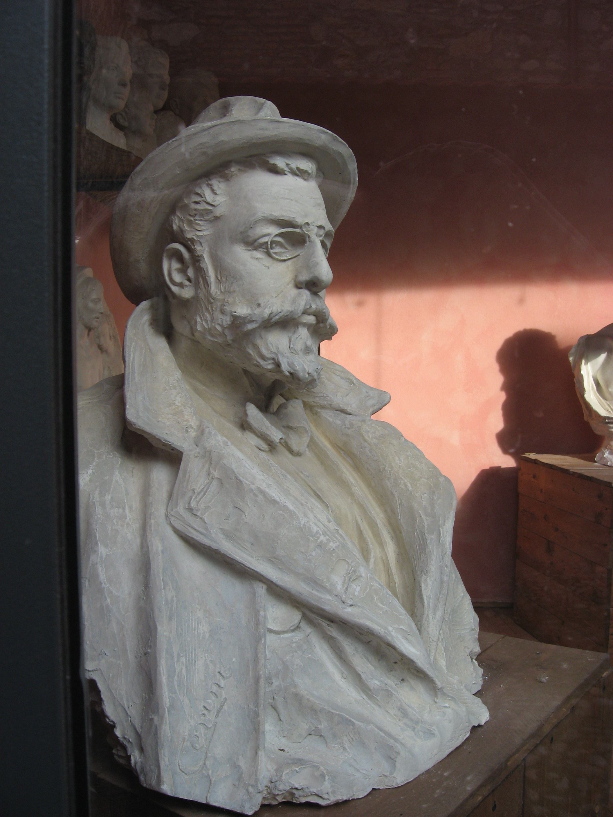 Opera in gesso di Giuseppe Vittorio Cerini